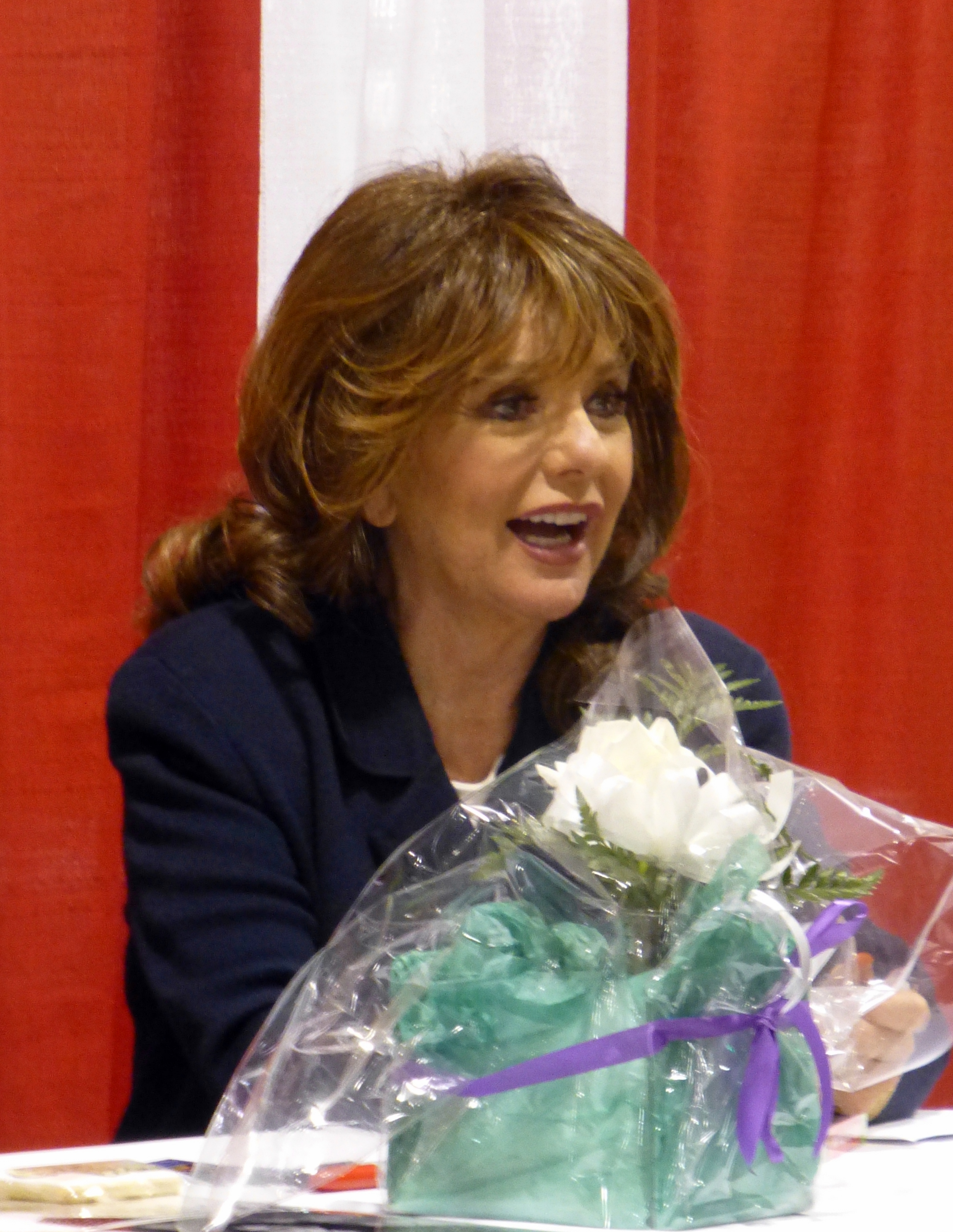 Dawn Wells in 2015